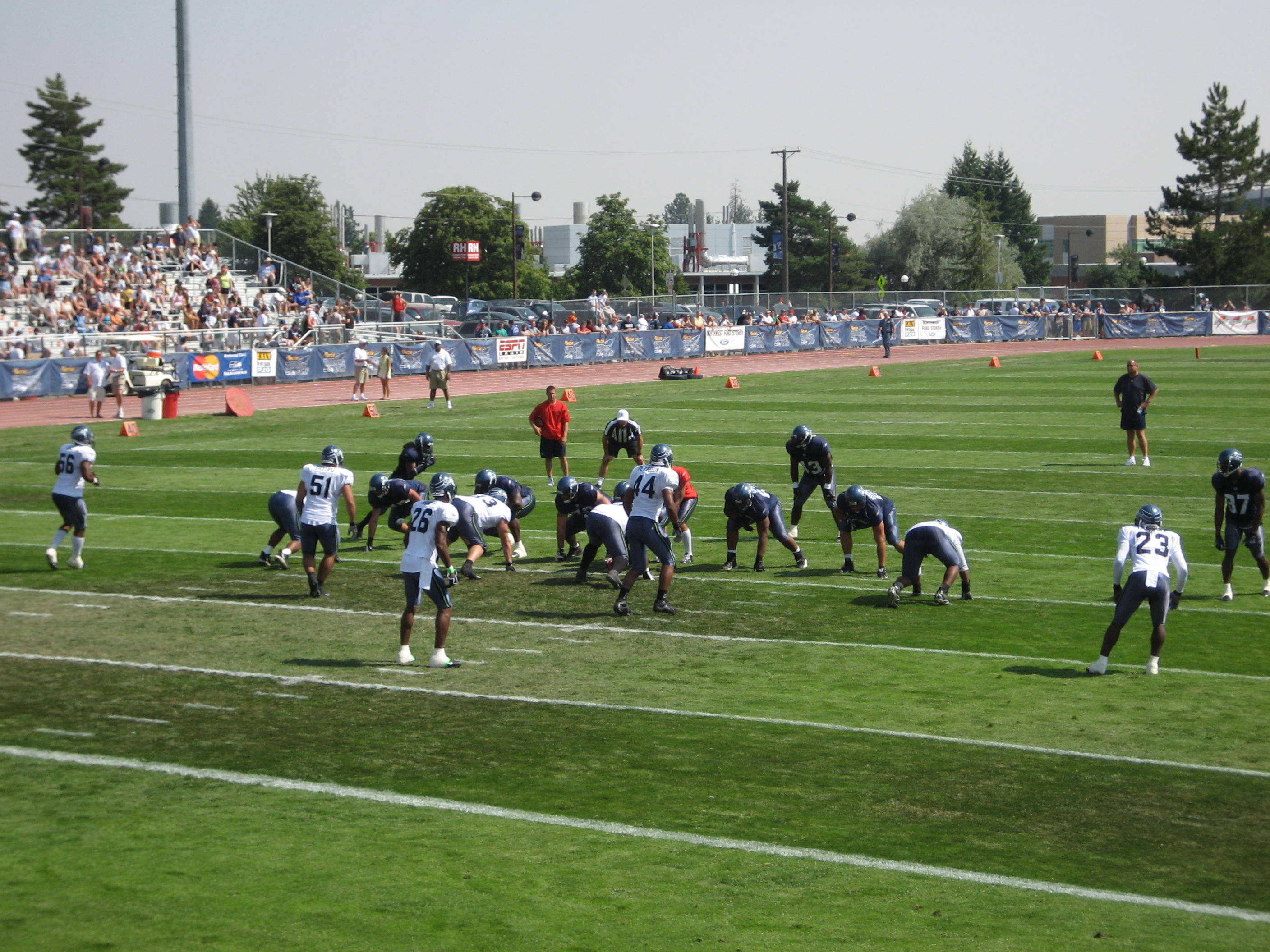 Picture of Seahawks Practice Scrimage at Eastern Washington University, Cheney Washington. Seneca Wallace sets up against the first team redzone defense.